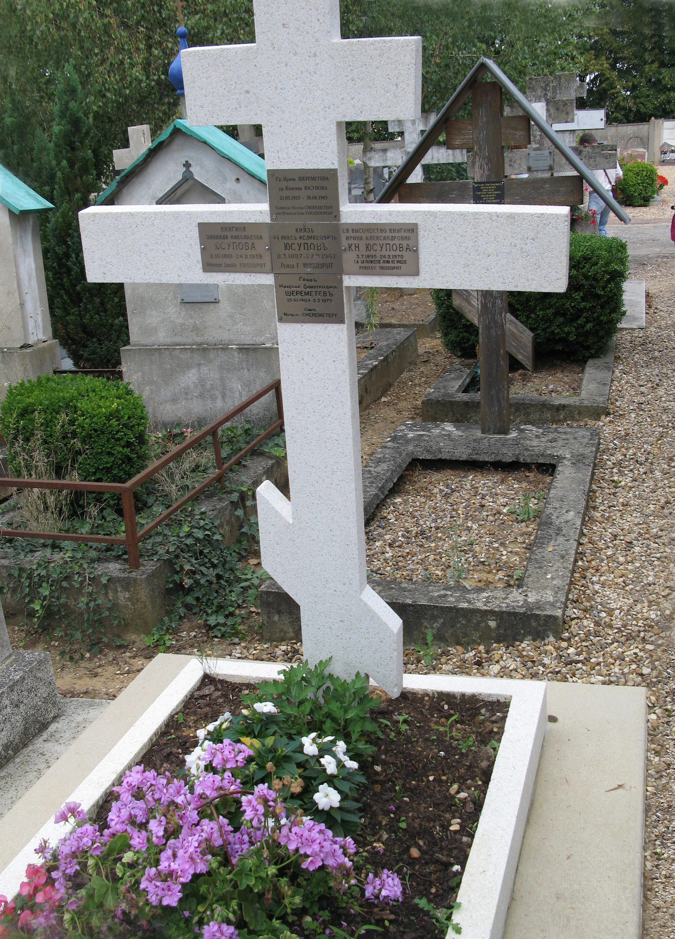 Tombe du prince Feliks Feliksovitch Iousupov, de son épouse, la grande-duchesse Irina Alexandrovna de Russie, de sa mère, la princesse Zinaïda Nikolaïevna Iousupova, au cimetière russe de Sainte-Geneviève des Bois (Essonne)